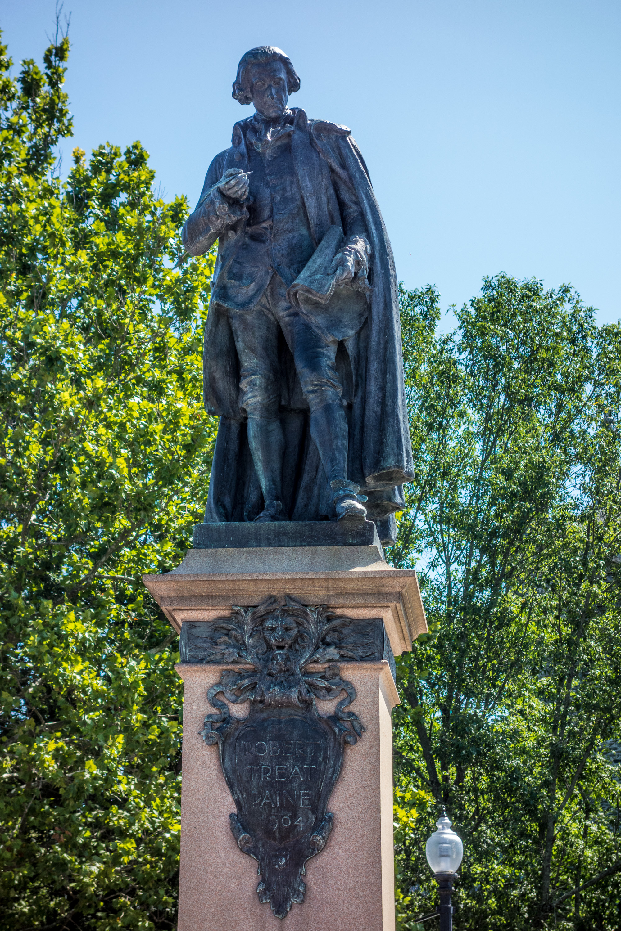 Statue of Robert Treat Paine, Signer of the Declaration of Independence, located at the west end of Church Green, Taunton, Massachusetts; erected in 1904.